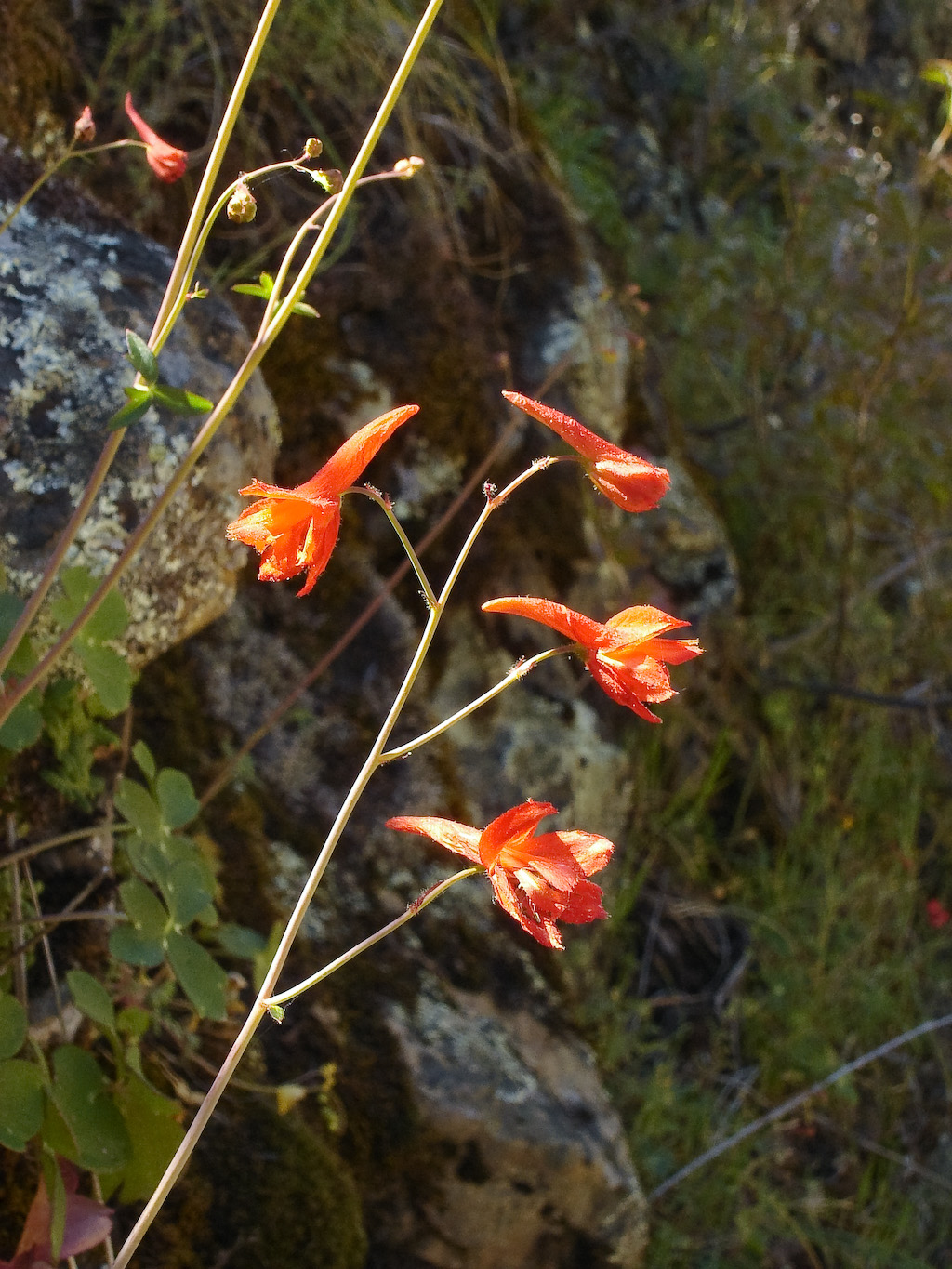 Orange larkspur (Delphinium nudicaule) — on Mount Diablo Prospectors Gap Road, Contra Costa County, Northern California.